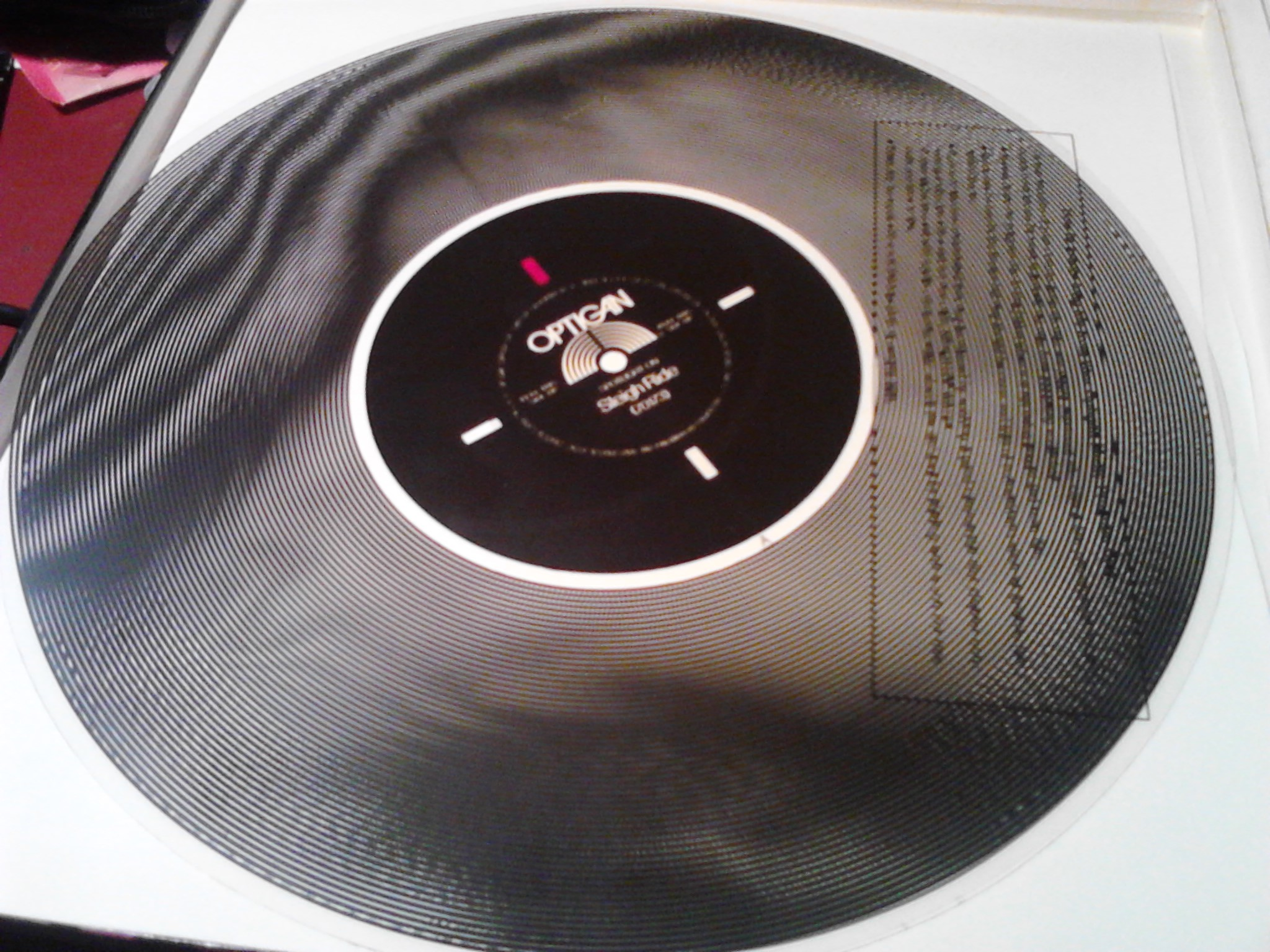 An Optigan Program Disc, containing the program "Sleigh Ride." The disc is made of clear flexible plastic with black grooves, and is 12" in diameter - the same size as an LP record.